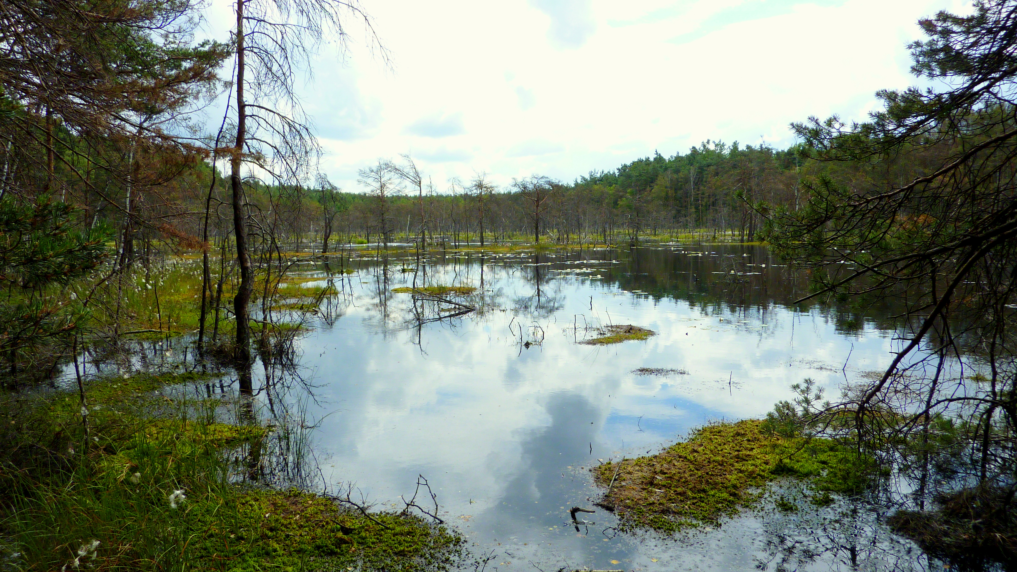 Nature reserve Bocianowskie Bagno in Poland